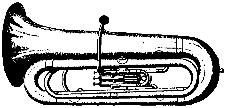 Drawing of a bombardon (tuba) by Besson.